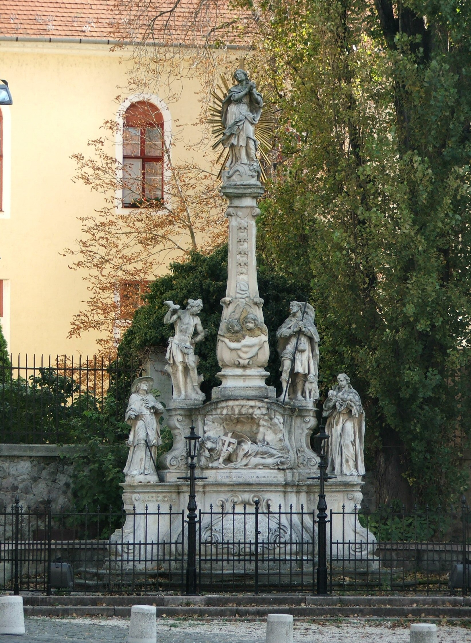 Statue in Esztergom-Watertown, Hungary.